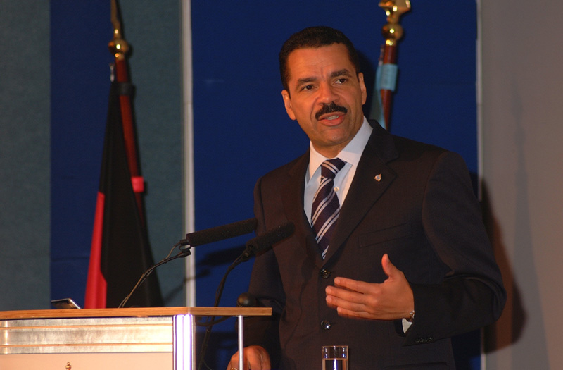 INTERPOL Secretary General Ronald Kenneth Noble, 2000-2005, 2005